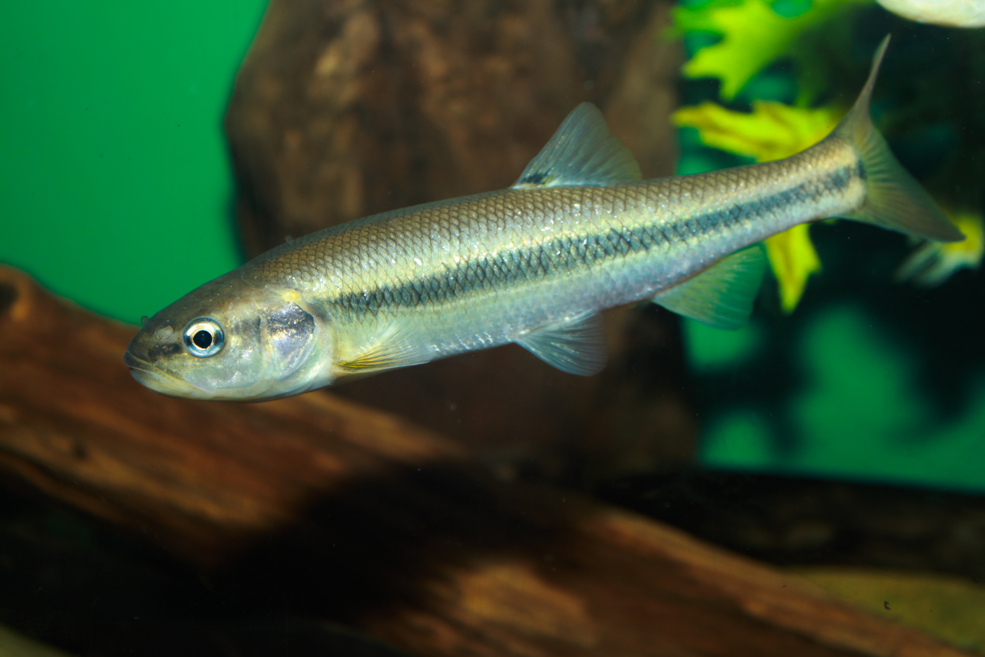 Creek Chub, Semotilus atromaculatus